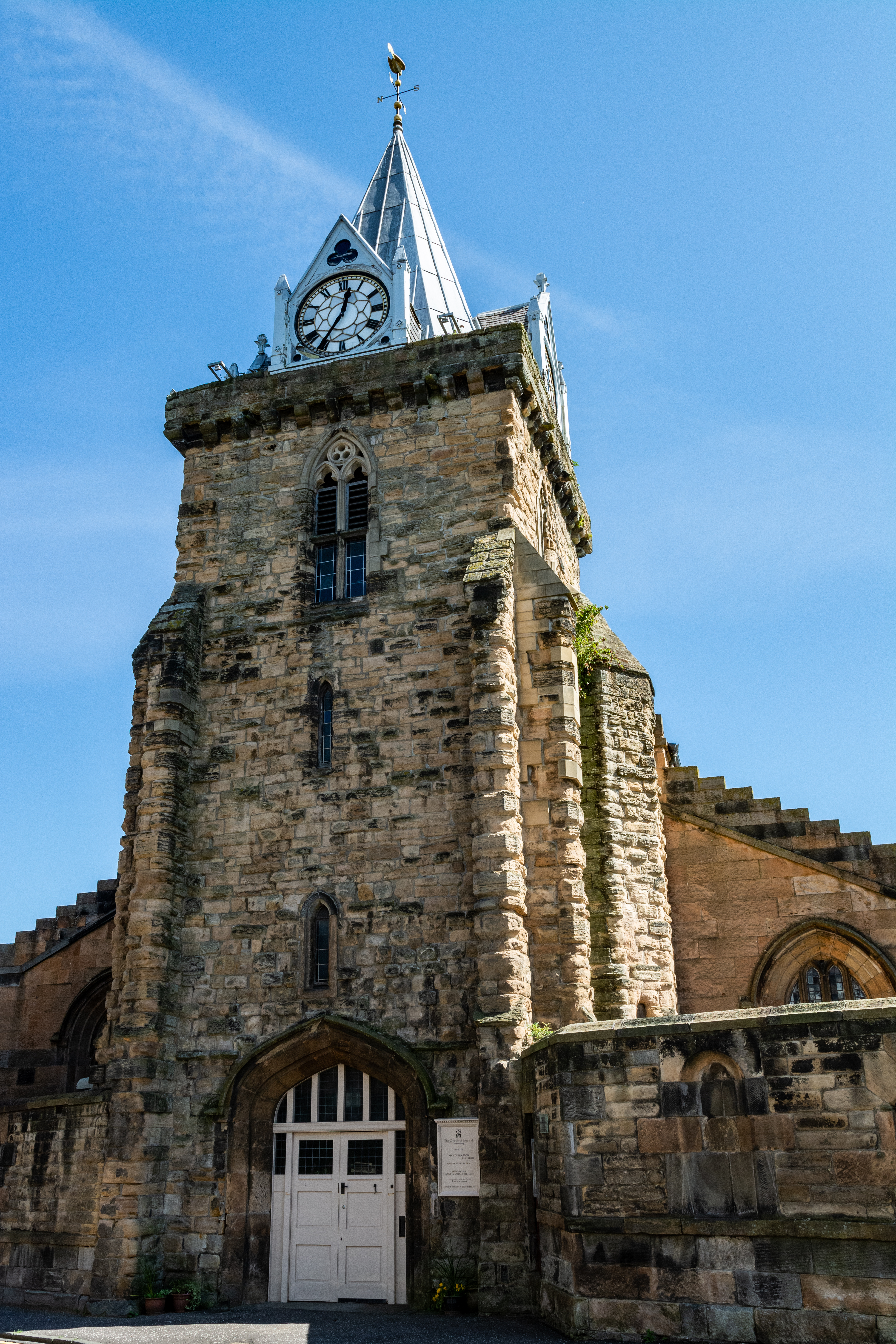 14th-century St. Peter's Kirk in Inverkeithing, Fife, Scotland